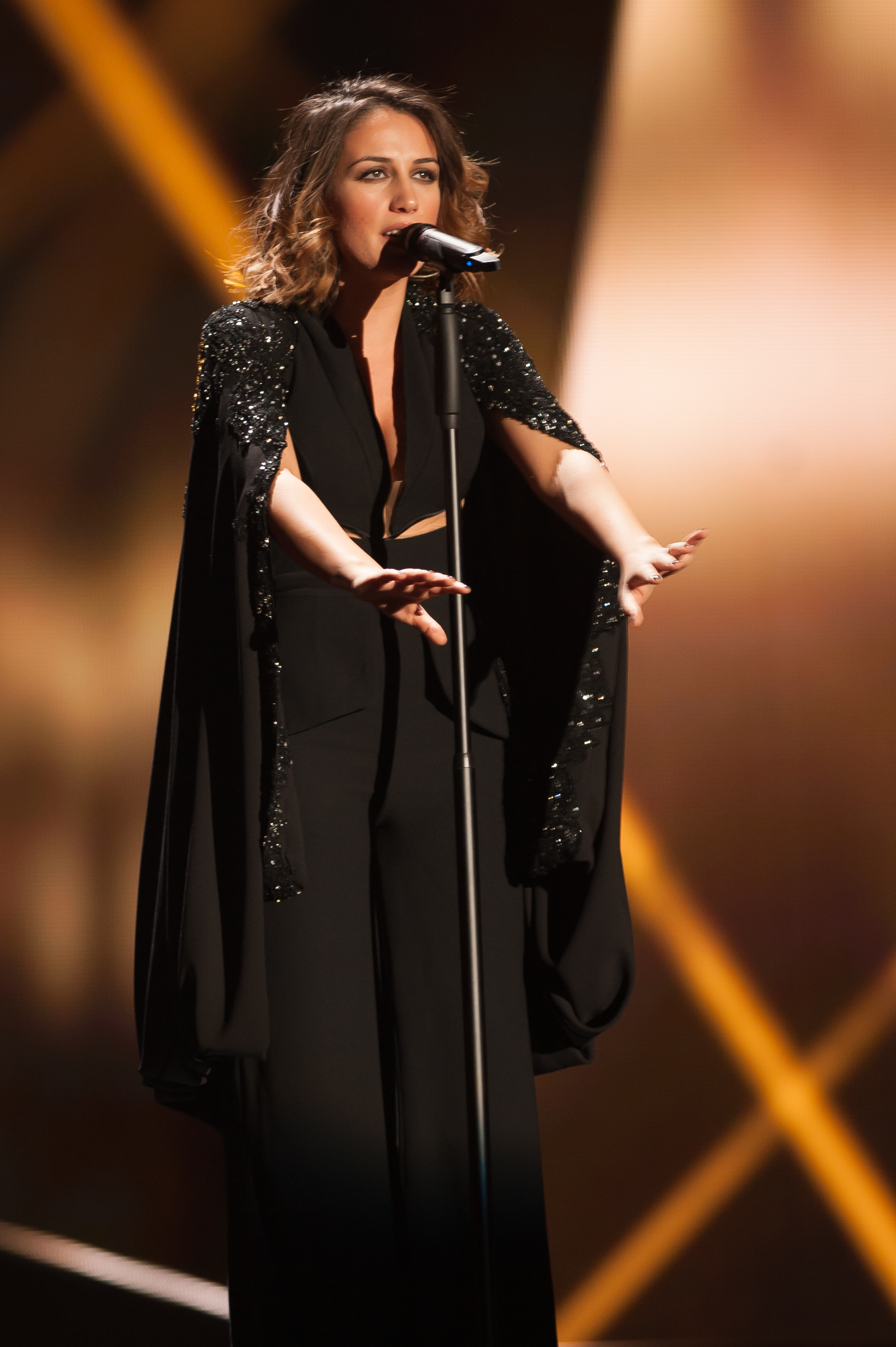 Eurovision Song Contest Vienna 2015: Elhaida Dani, Albania